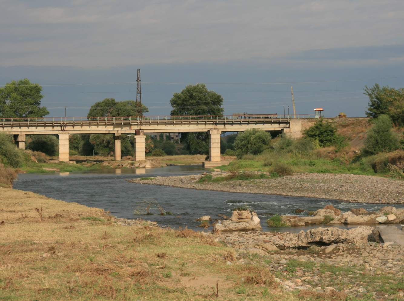 Bridge over the Khrami in Imiri, Georgia.